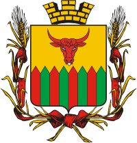 Chita (Chita oblast), coat of arms (1913)